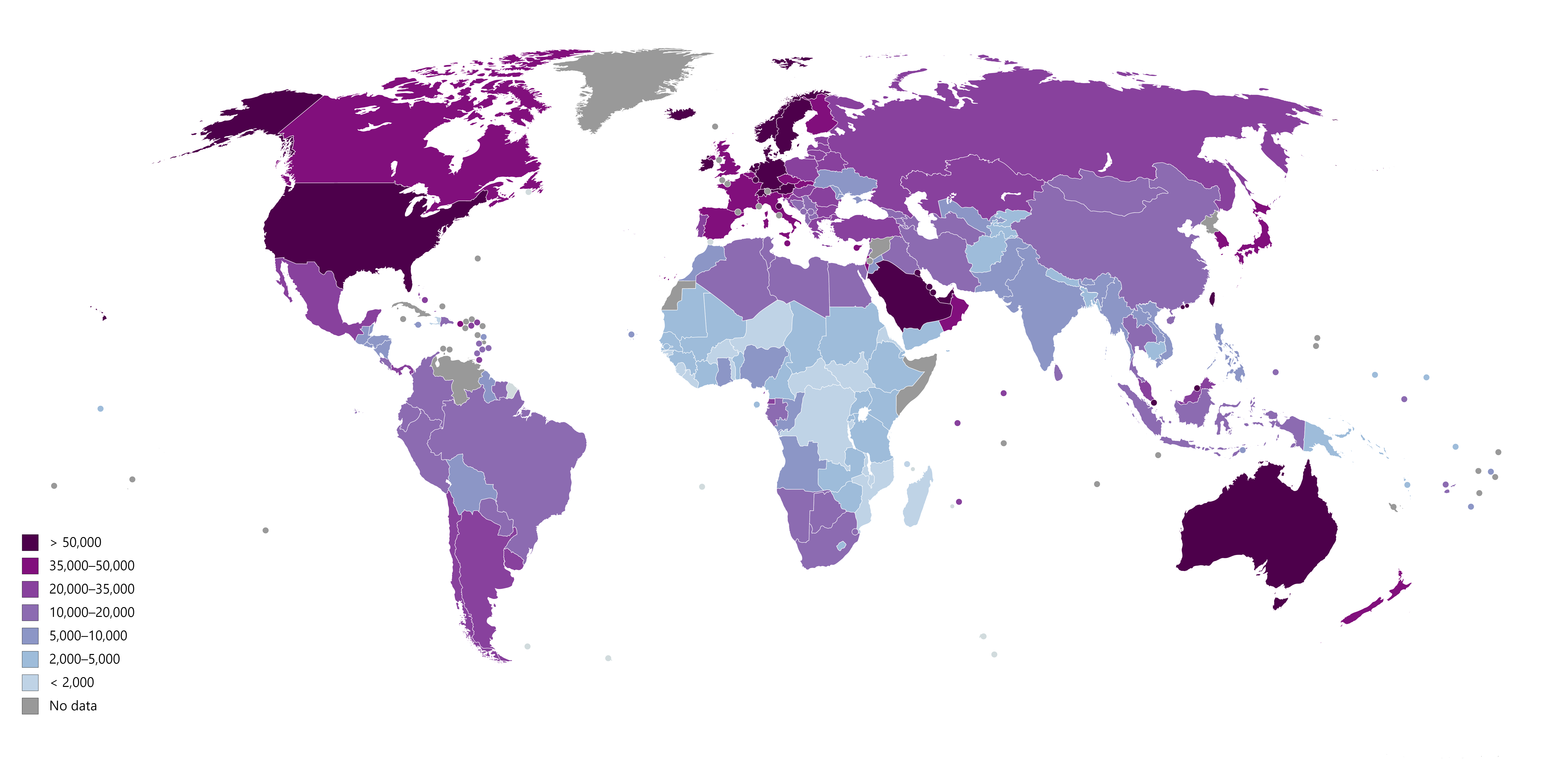 Countries by GDP (PPP) per capita (Int$) in 2018 according to the IMF